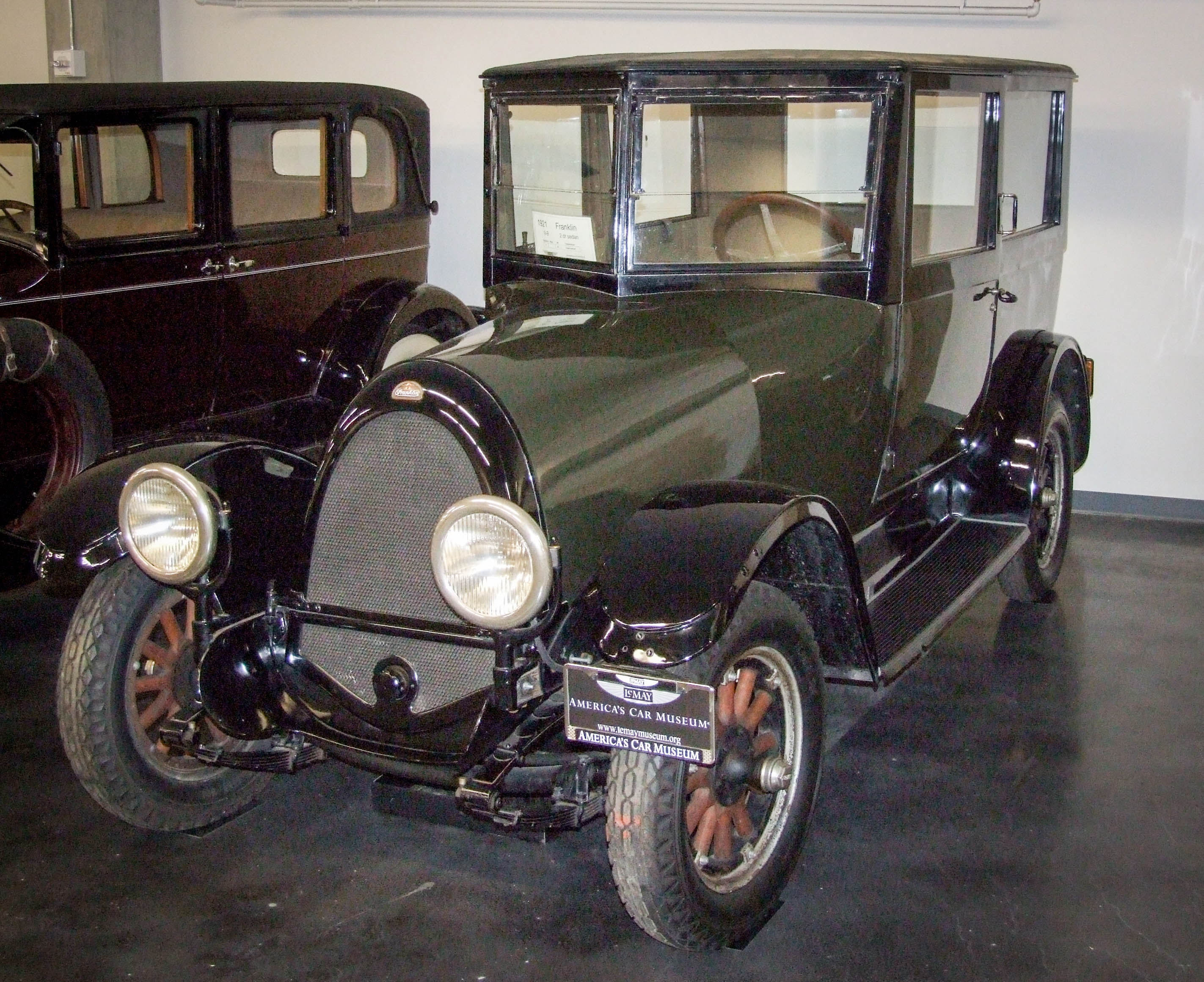 1921 Franklin 9-B 2 door Sedan 6 cyl 25 hp 3 speed manual Le May Car Museum, Tacoma